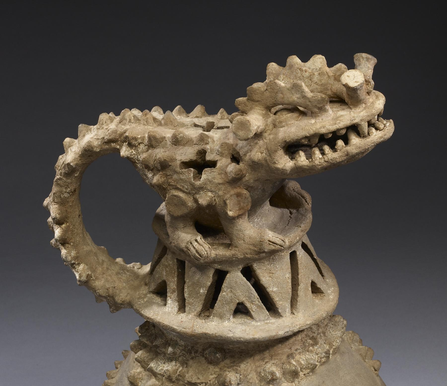 The burning of incense was an important part of myriad rituals throughout Mesoamerica and Central America. Smoke served to alternatively screen and reveal the activities of the sacred rite, the magical smoke being present and suddenly disappearing as it rises to the heavens. The incense, typically pungent copal from a pine tree, stimulated the participants' olfactory sense. Together, the smoke's effects call to mind the ethereal world of the supernatural. This incense burner is topped with the portrayal of a caiman or other member of the Crocodylidae family, one of the frequent animal spirit forms of Central American shamans. Its particularly aggressive stance may refer to the practitioner's battle against supernatural forces. Many such incense burners were found ritually broken on the slopes of a principal volcano on the island of Ometepe in Lake Nicaragua, the incense burner lid with its smoke issuing from the top mimicking an active volcano. Among peoples from southern Nicaragua to Mesoamerica the earth was likened to the back of a crocodile floating in the primordial sea, its dorsal scutes being the volcanic north-south backbone that defines the continents of the Western Hemisphere. This incense burner, then, constitutes a profound ritual vessel pertaining to the transition from the natural to the supernatural realms and a symbolic model of the ancient Costa Rican world.